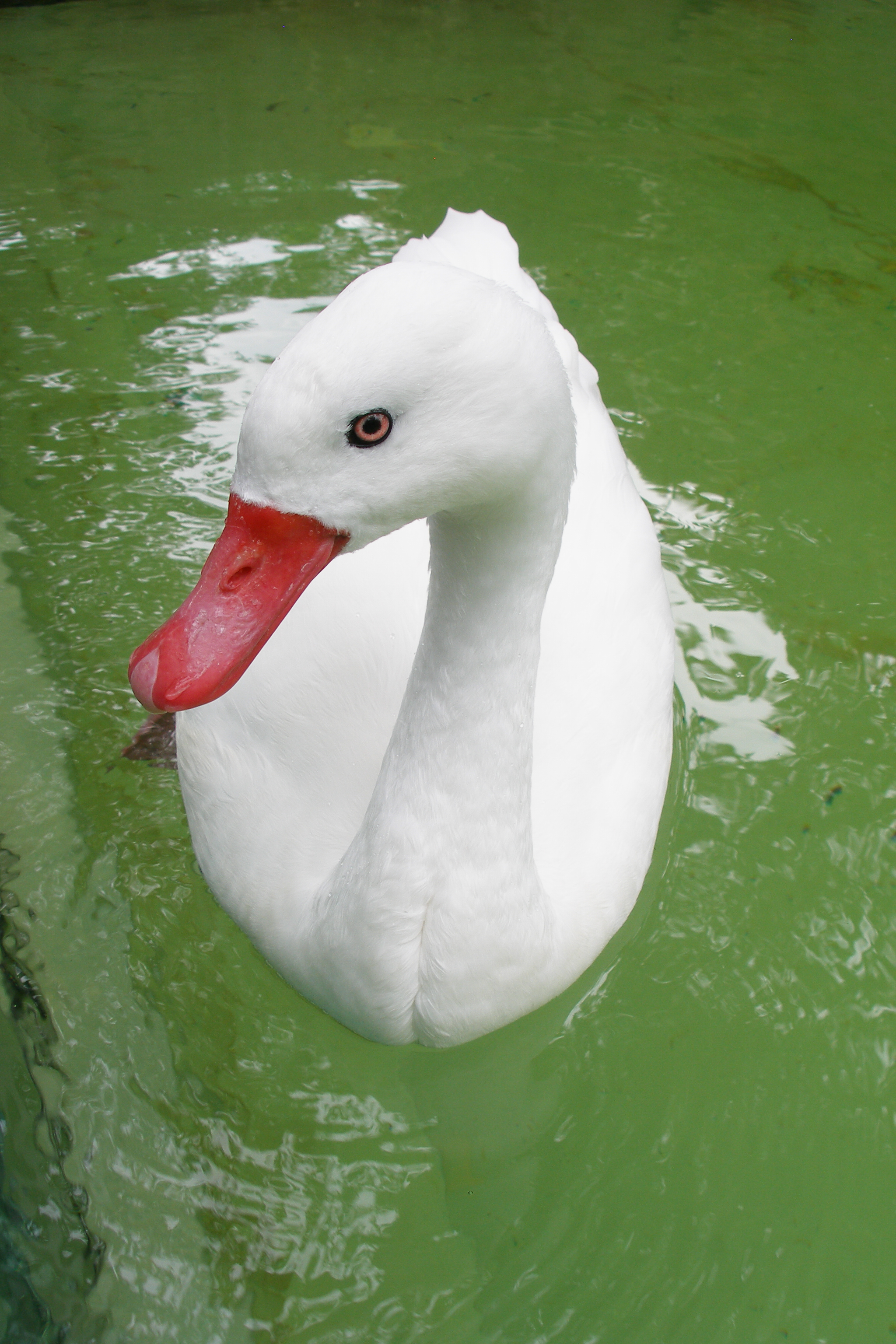 A Coscoroba Swan at the Berlin Zoo